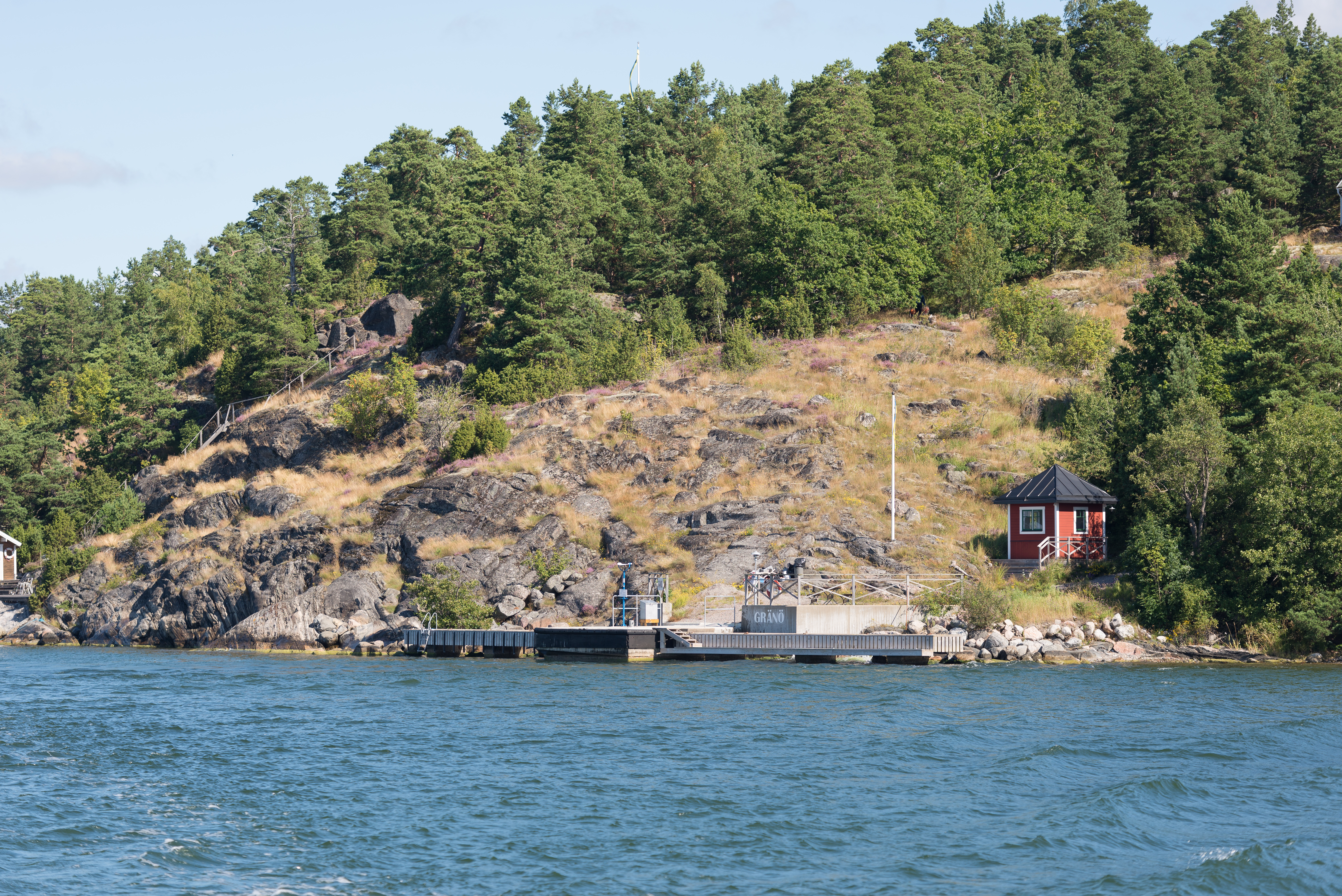 Gränö jetty on the island Gränö in Haninge Municipality, Stockholm archipelago.